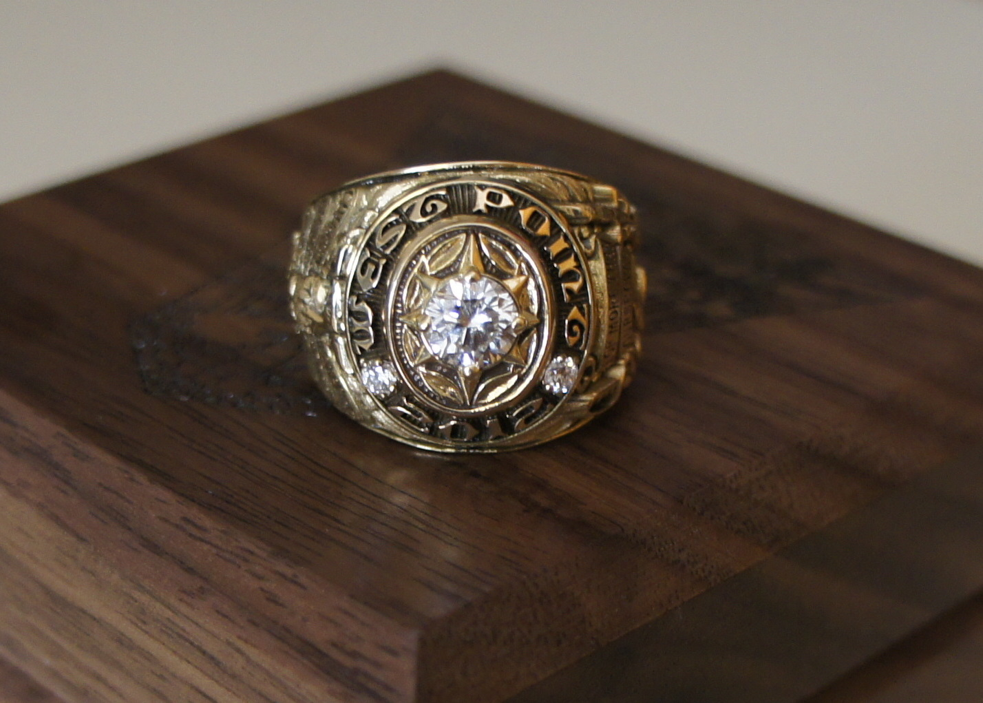 USMA Class Ring of Class of 2012. The inside engraving says "Never Forget" in memory of men and women who have made the ultimate sacrifice.